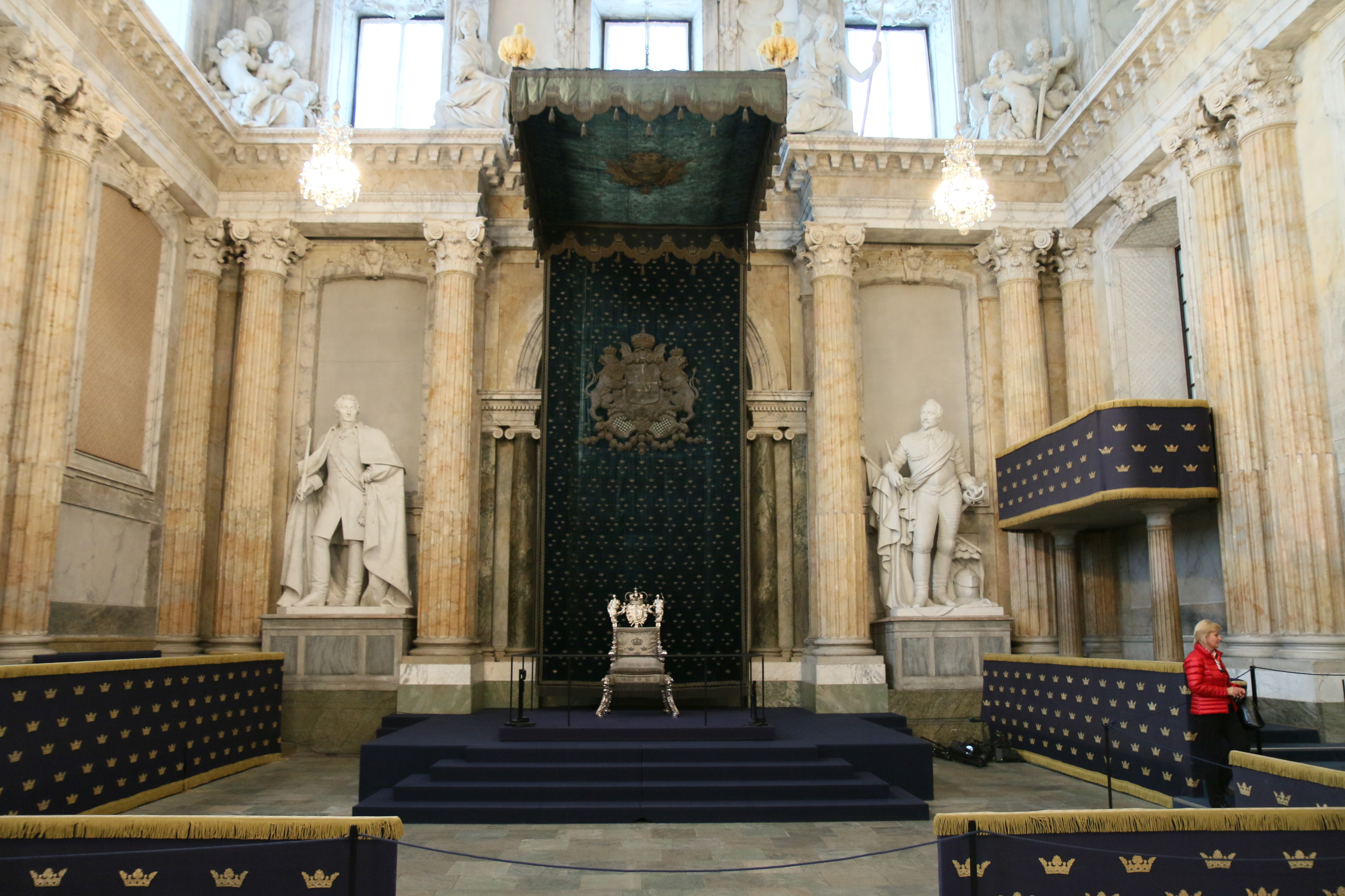 The Hall of State Throne room - "Hall of State" - Rikssalen in 2015 The Hall of State is in the west half of the southern row of the palace and is two stories high (first and second floor). It was introduced for the Riksdag of 1755. The hall was designed by Hårleman who modified Tessin's plans. The Silver Throne of Queen Christina is placed in the Hall. The main entrance of the Hall is in the South Portal (or Arch).